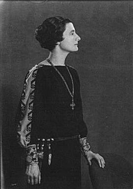 Arnold Genthe (1869-1942)/LOC agc.7a08461. Mercedes Hede de Acosta, after 1919.